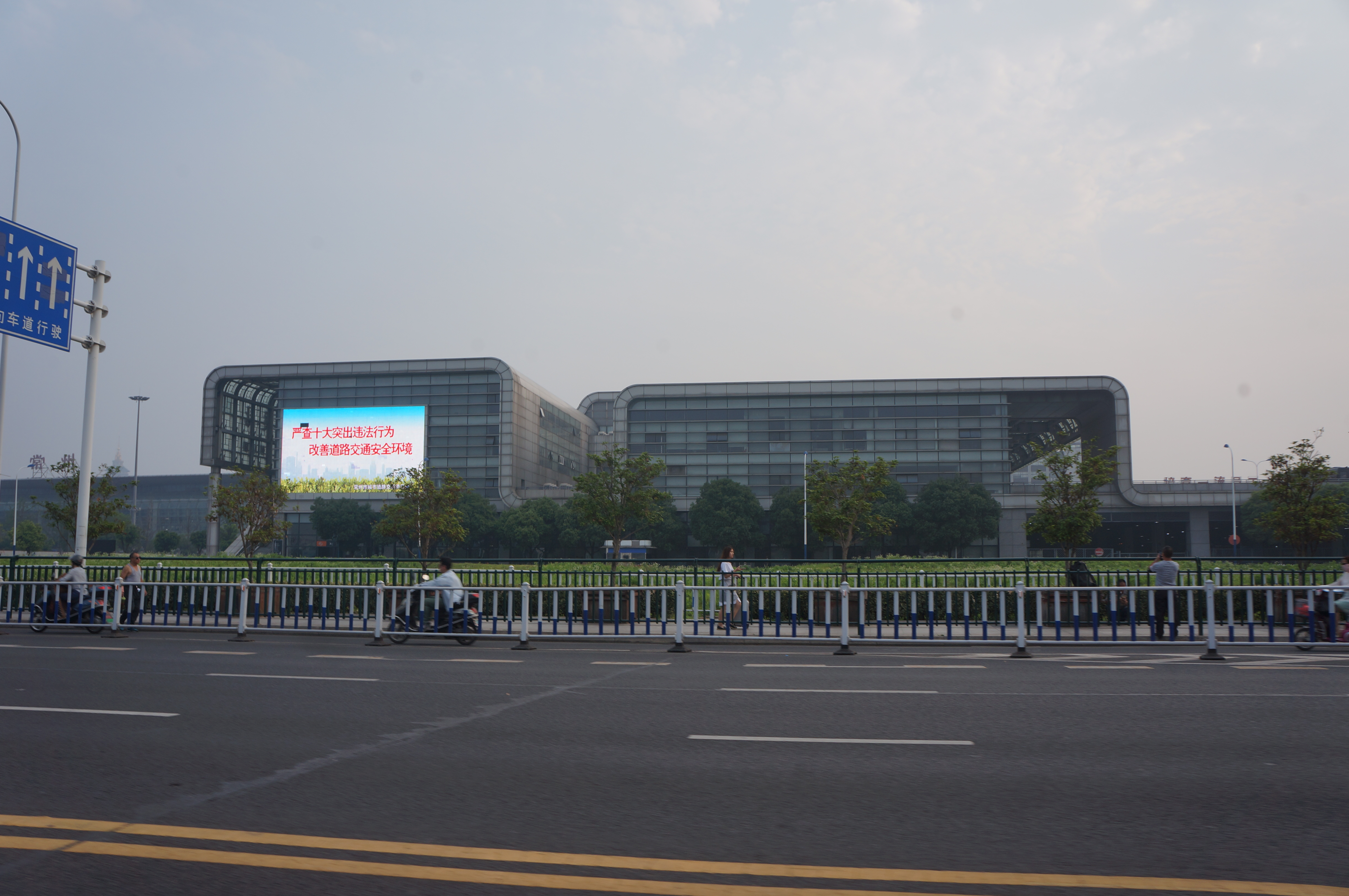 201706 Changzhou Bus Station, located right beside the intercity station